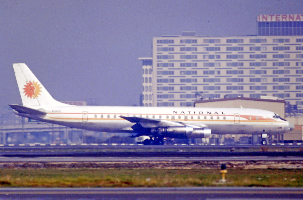 Douglas DC-8-32 N7183C of National Airlines operating a Los Angeles to Miami scheduled service in 1971